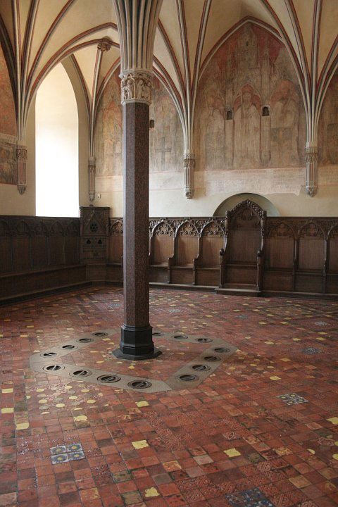 Malbork, room at 1st floor, in western part of northern wing of High Castle, so-called Chapter House, actually refectory.